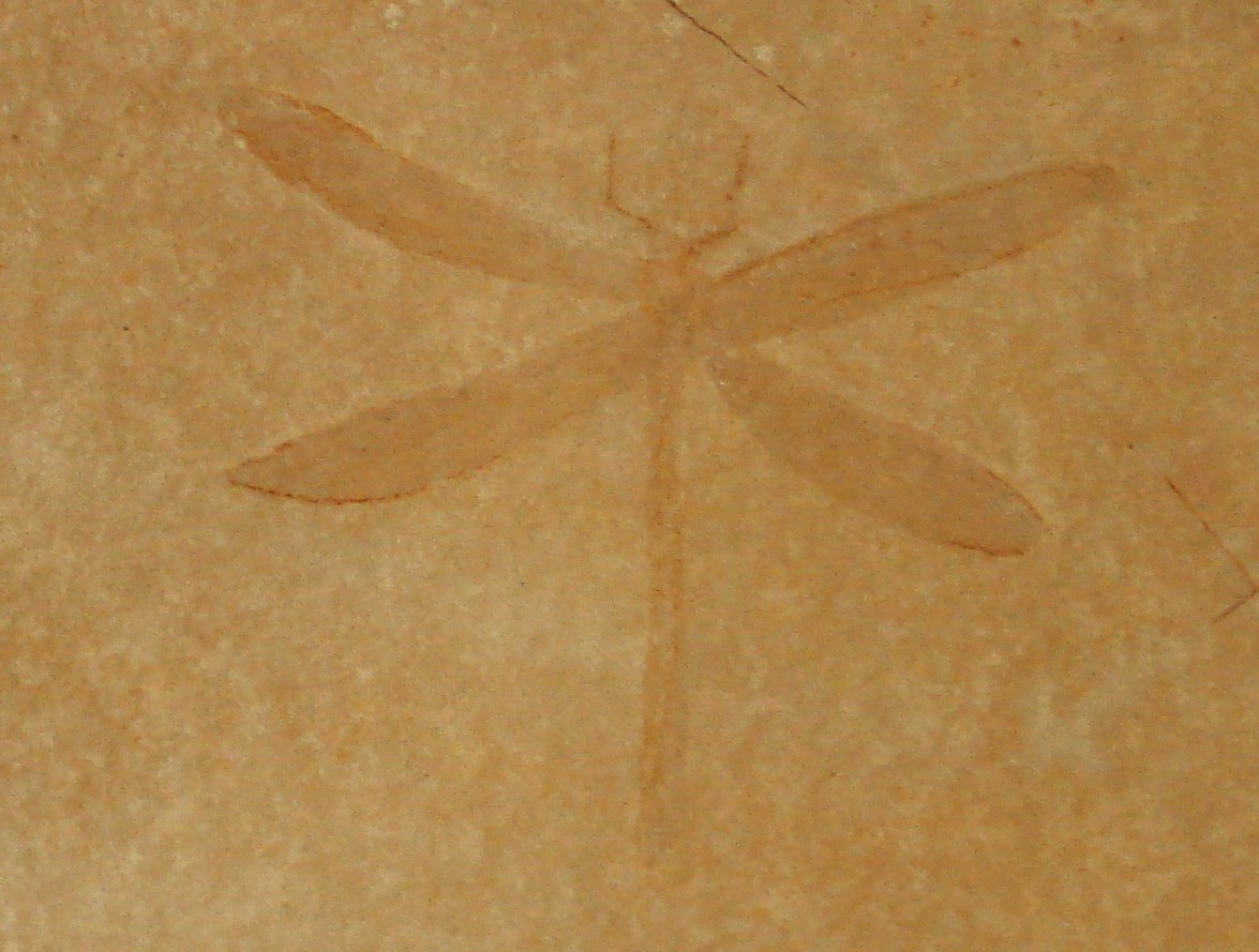 fossil of steleopteron